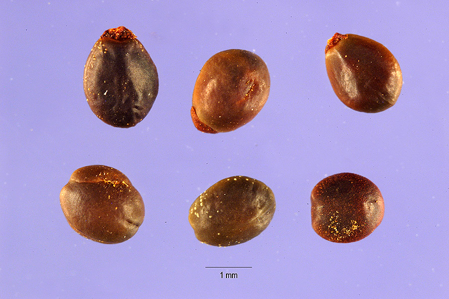 Ceanothus thyrsiflorus seeds